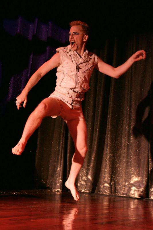 Tigger at Miss Exotic World, 2006.